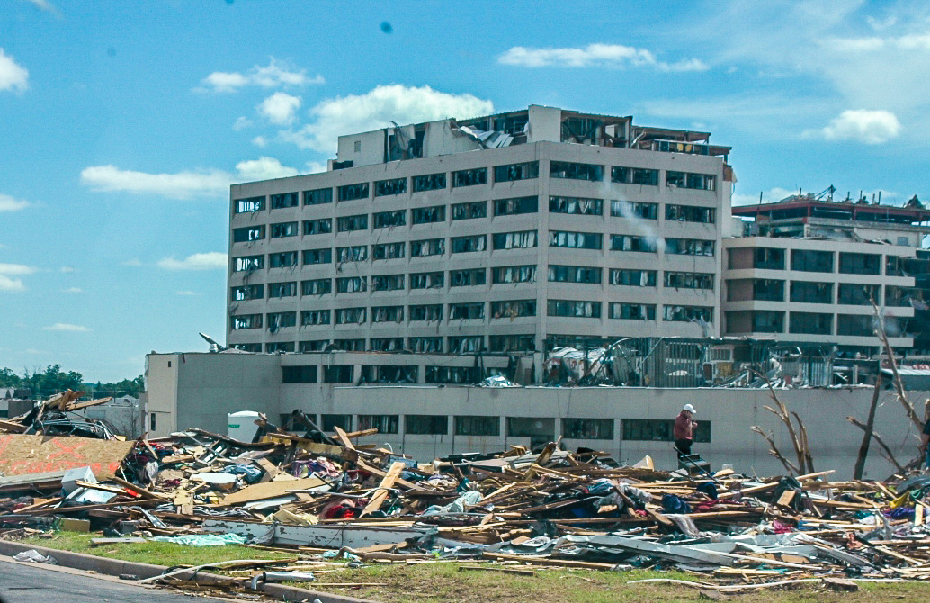 Damage of St. Johns hospital(tower II), with ruins of local theater where 2 people perished in foreground.